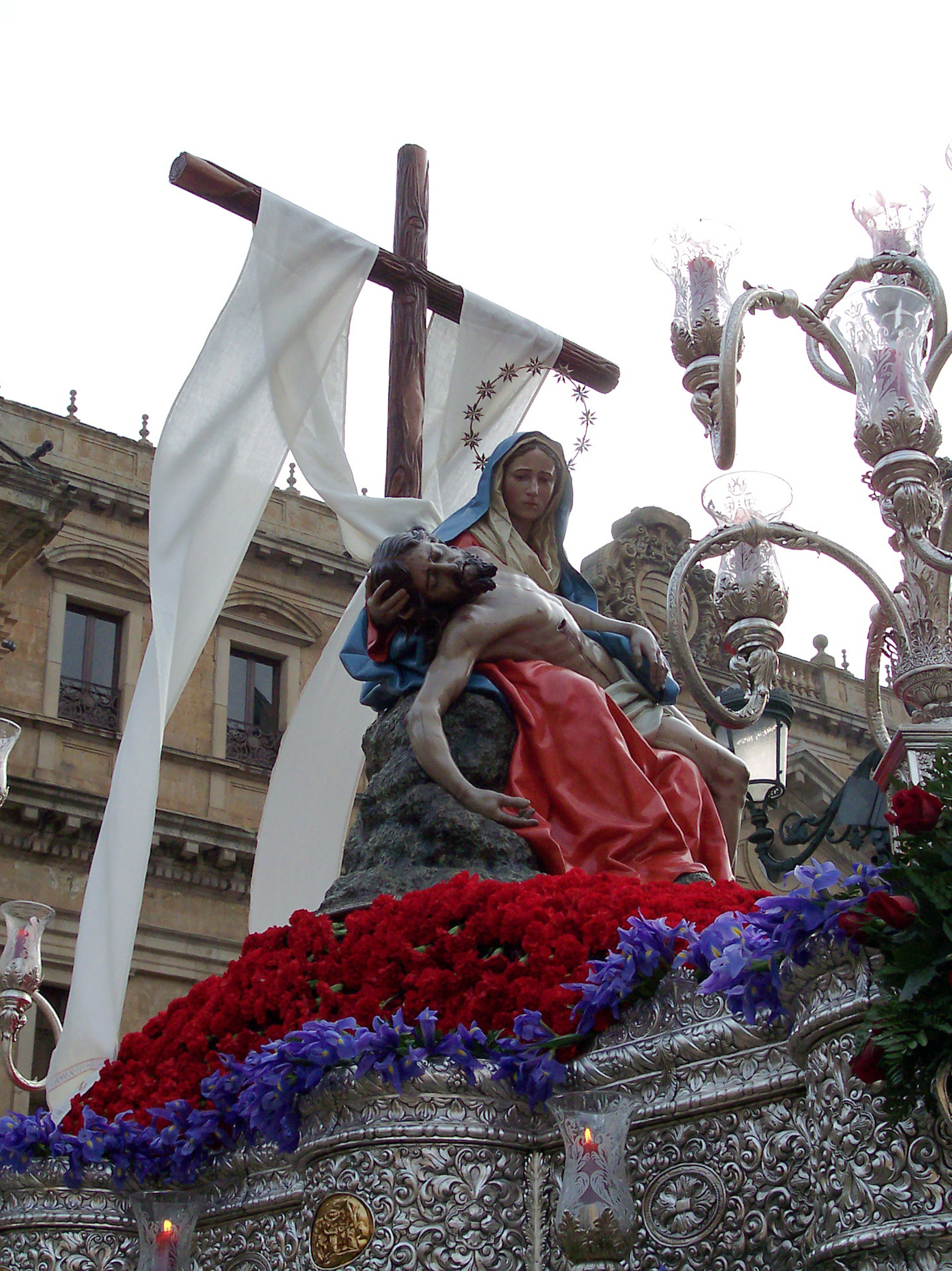 Pietà, by Luis Salvador Carmona, Salamanca (España)